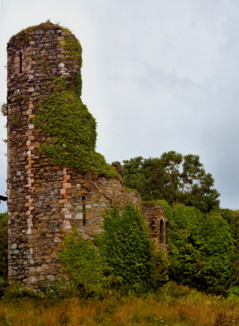 Northburgh Castle. "The Normans had raided much of the south side of Lough Foyle during the previous century and finally ceased the land from Coleraine to Derry. In the early 1300's the Red Earl of Ulster acquired the land across Lough Foyle at Moville, from the Bishop of Derry. In 1305 he built Northburgh Castle opposite his Manor or Roe in the county of Coleraine." (From an info board at the castle entrance)